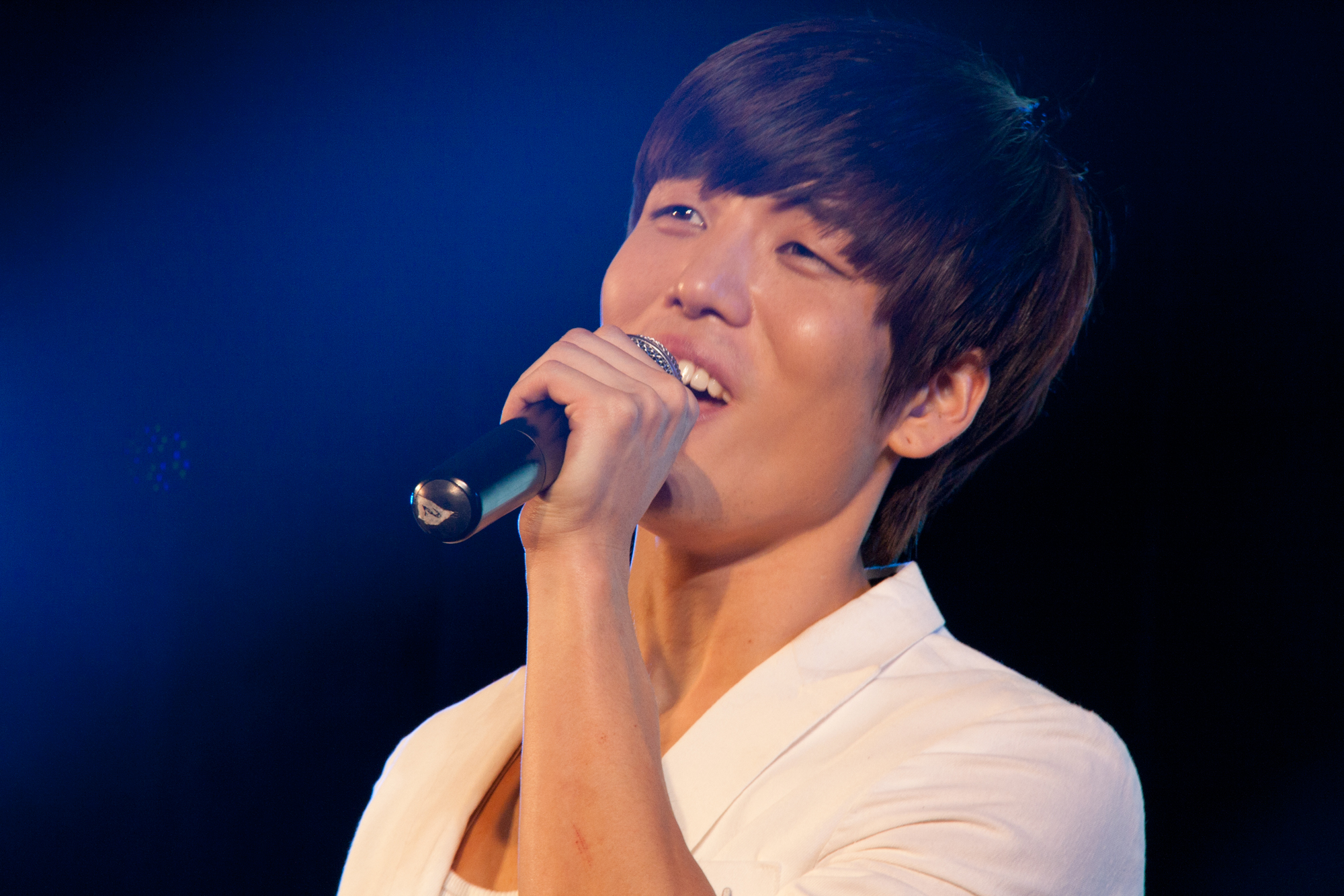 2AM in Manila